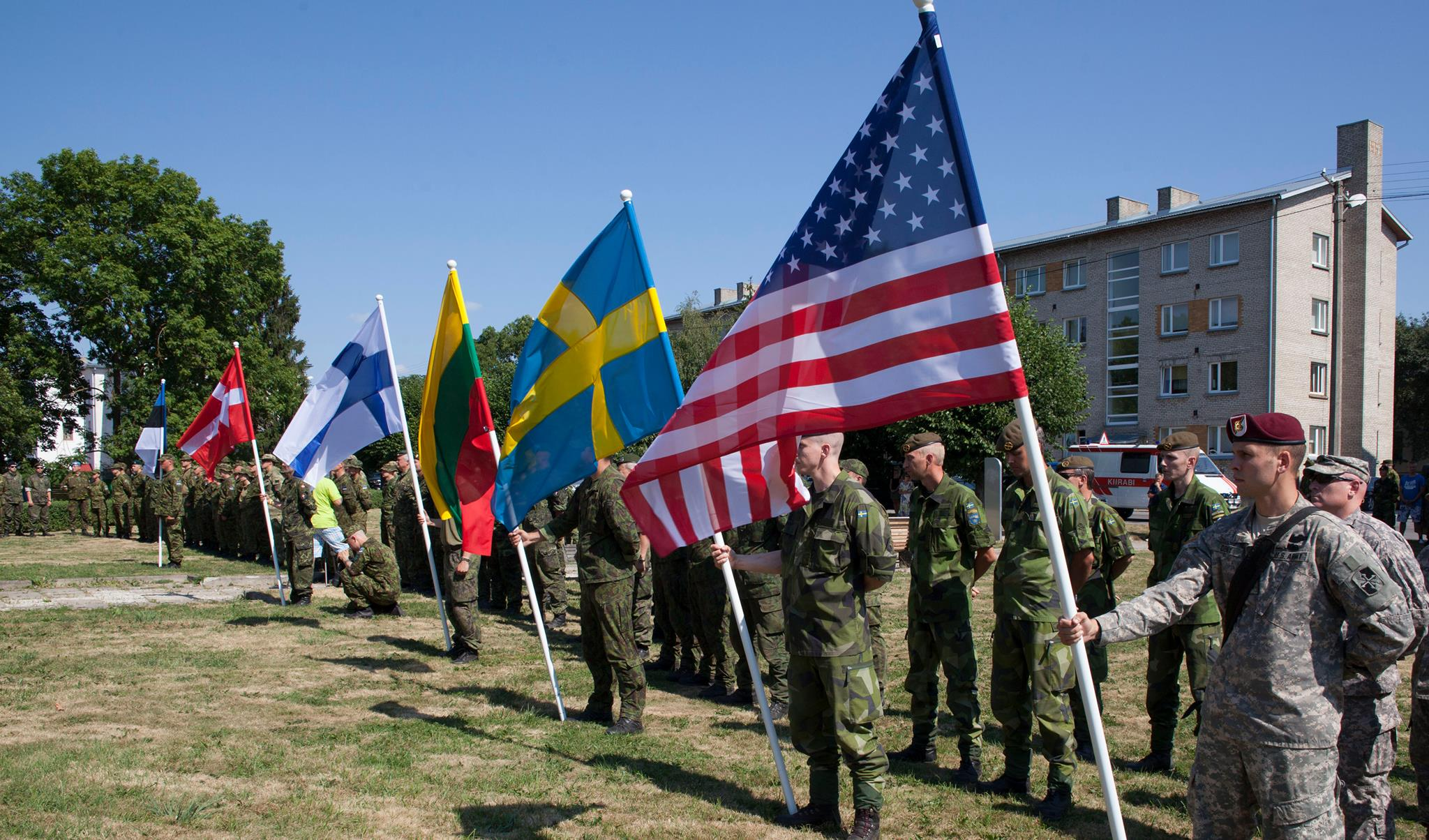 NATO soldiers from Estonia, Denmark, Finland, Lithuania, Sweden and the United States present their countries’ colors (or flags) during the opening ceremony of the second annual Admiral Pitka Recon Challenge Aug. 5 at Rakvere, Estonia. Hosted by the Estonian Defense League and including Soldiers from the 173rd Airborne Brigade and the Maryland National Guard, this three-day competition tested the strength, speed, endurance, intelligence and willpower of 26 teams from six countries through a series of obstacles and simulations along an 81-mile route through Estonia’s countryside. Paratroopers with the 173rd Abn. Bde. are deployed for training in Estonia as part of Operation Atlantic Resolve, an exercise dedicated to demonstrating commitment to NATO obligations and sustaining interoperability with allied forces. The Maryland National Guard and Estonian armed forces have been partners through the State Partnership Program for more than 20 years.